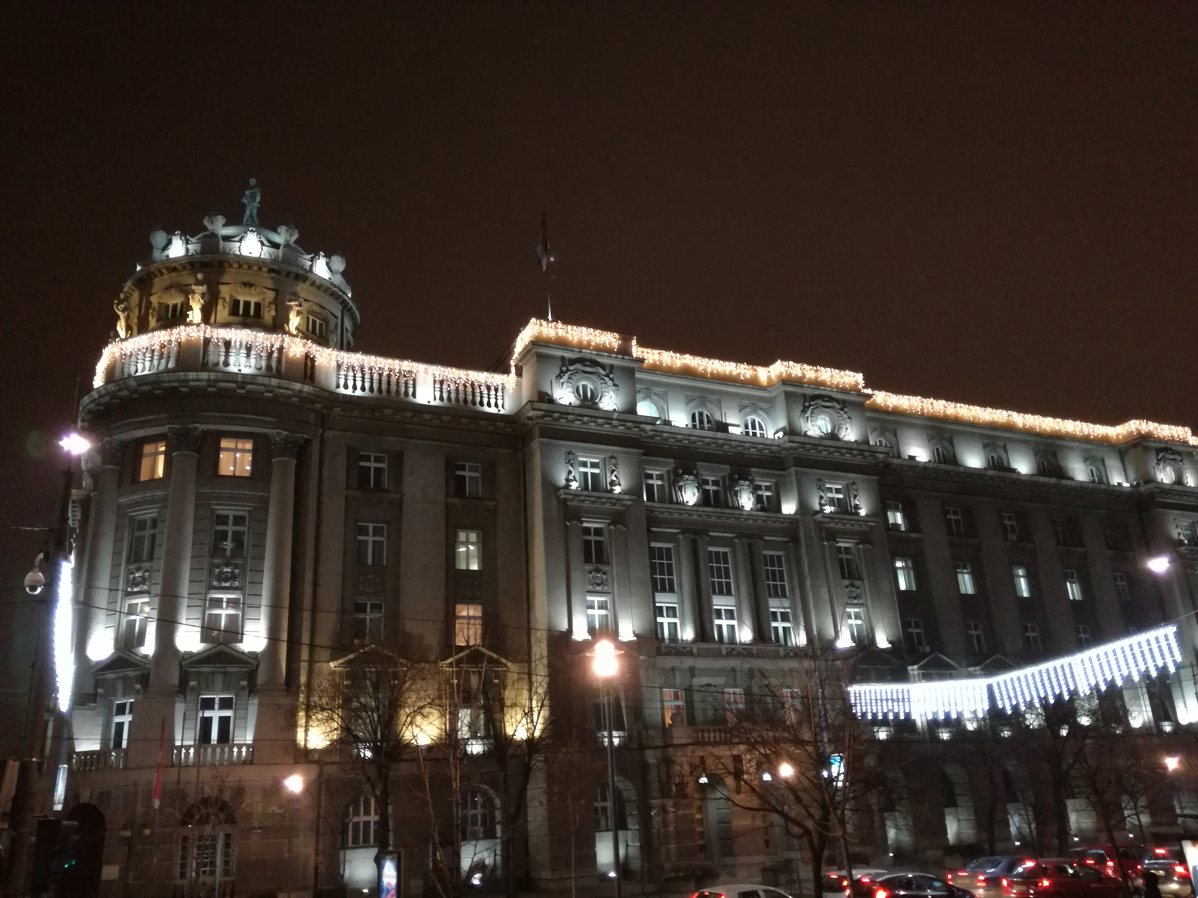 Зграда Министарства спољних послова Републике Србије, децембар 2016 Building of the Ministry of Foreign Affairs of the Republic of Serbia, December 2016